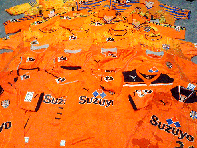 My collection of Shimizu S-Pulse shirts.